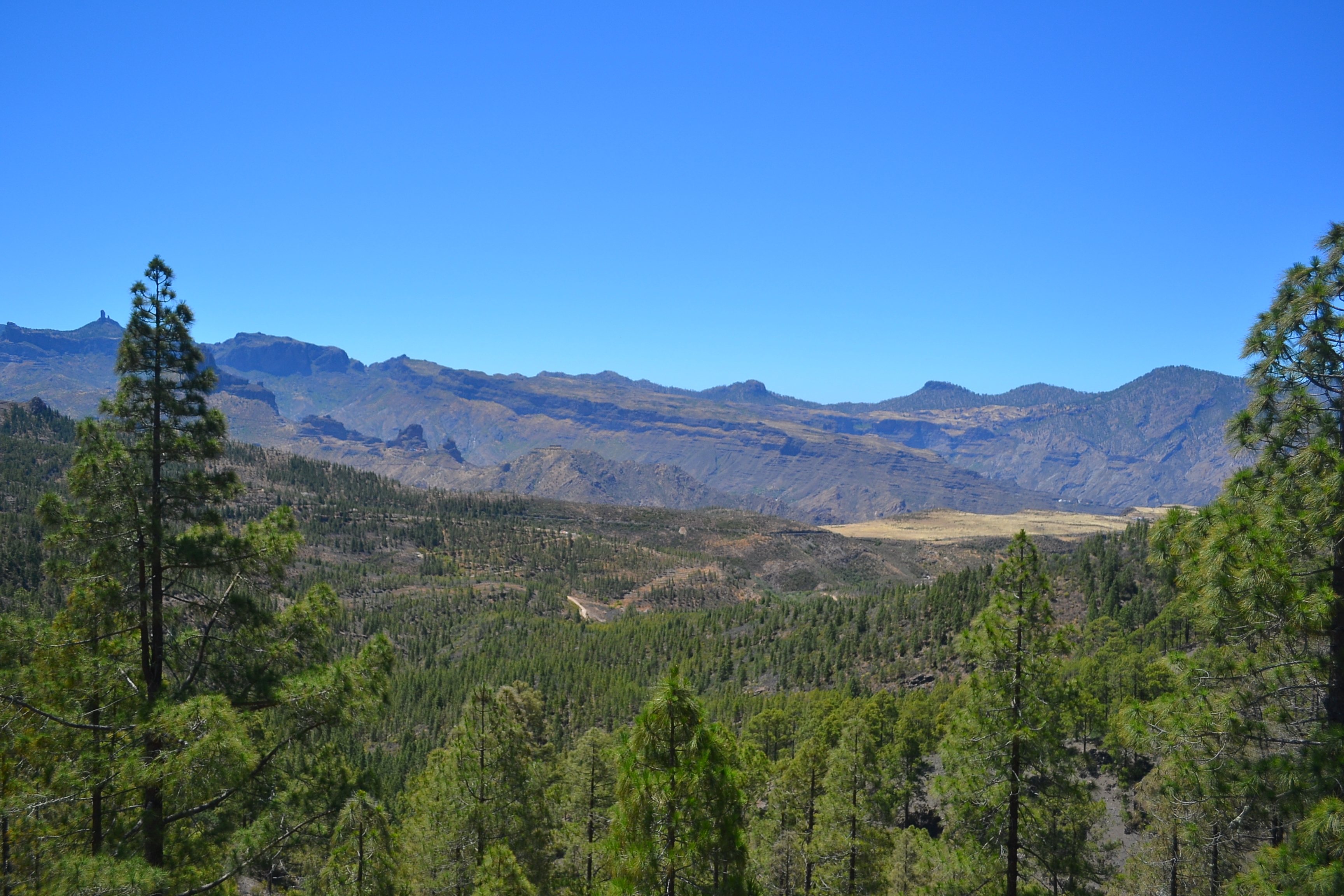 Landscapes of Natural Park of Tamadaba (Gran Canaria, Canary Islands).